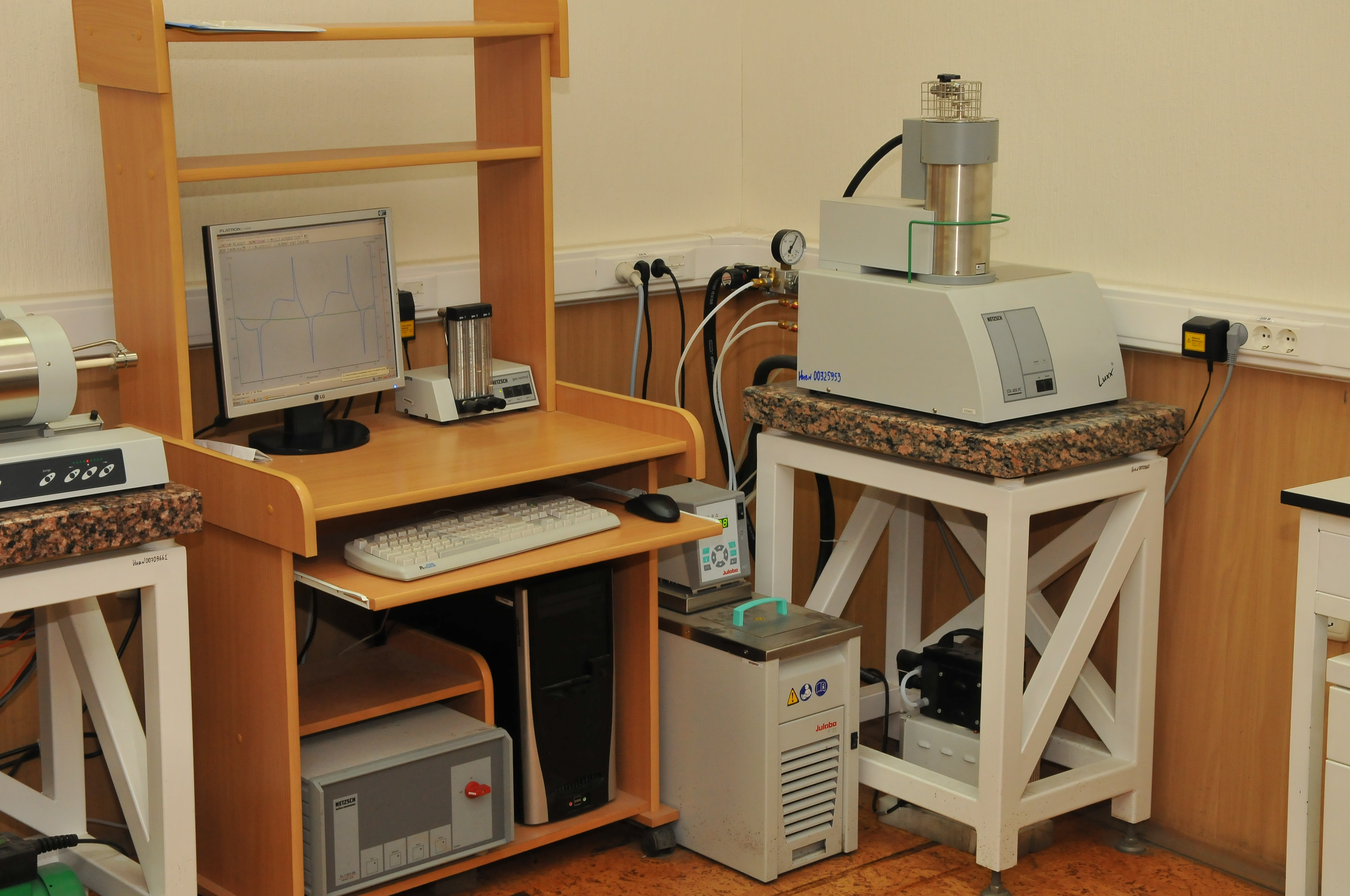 DSC/TG simultaneous analyser, equipped with vacuum pump and thermostat